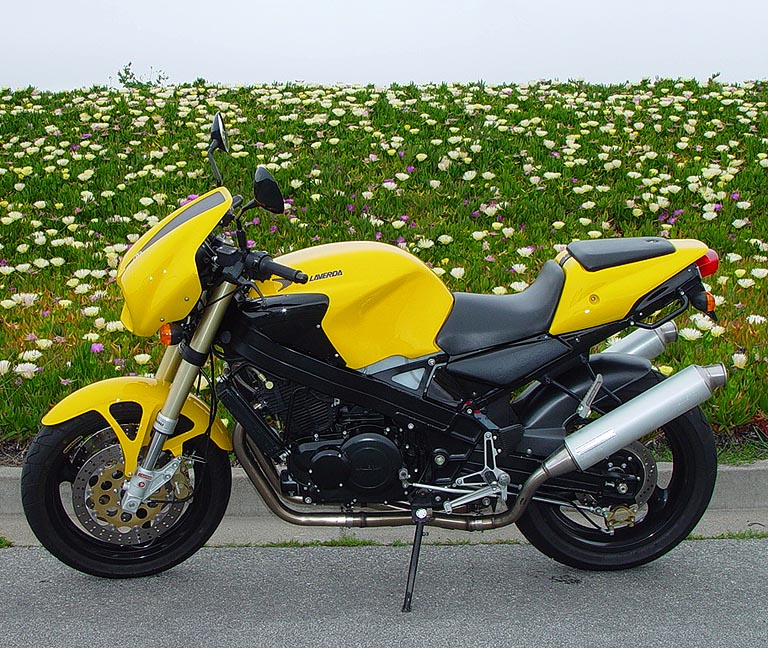 Photo that I took of my Laverda Ghost Strike in Oakland CA in 2006.